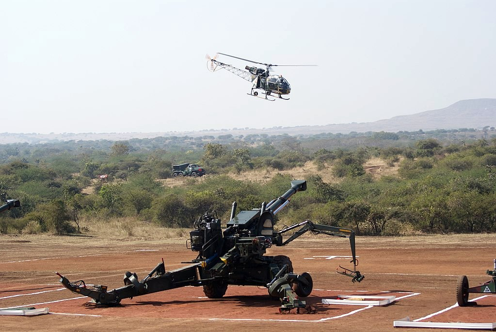 Indian Army Aviation Corps and Air Defence Arty Joint Display Ex